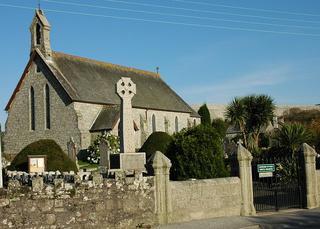 Nanpean Church. The large Celtic cross in the front of the church is the Nanpean War Memorial